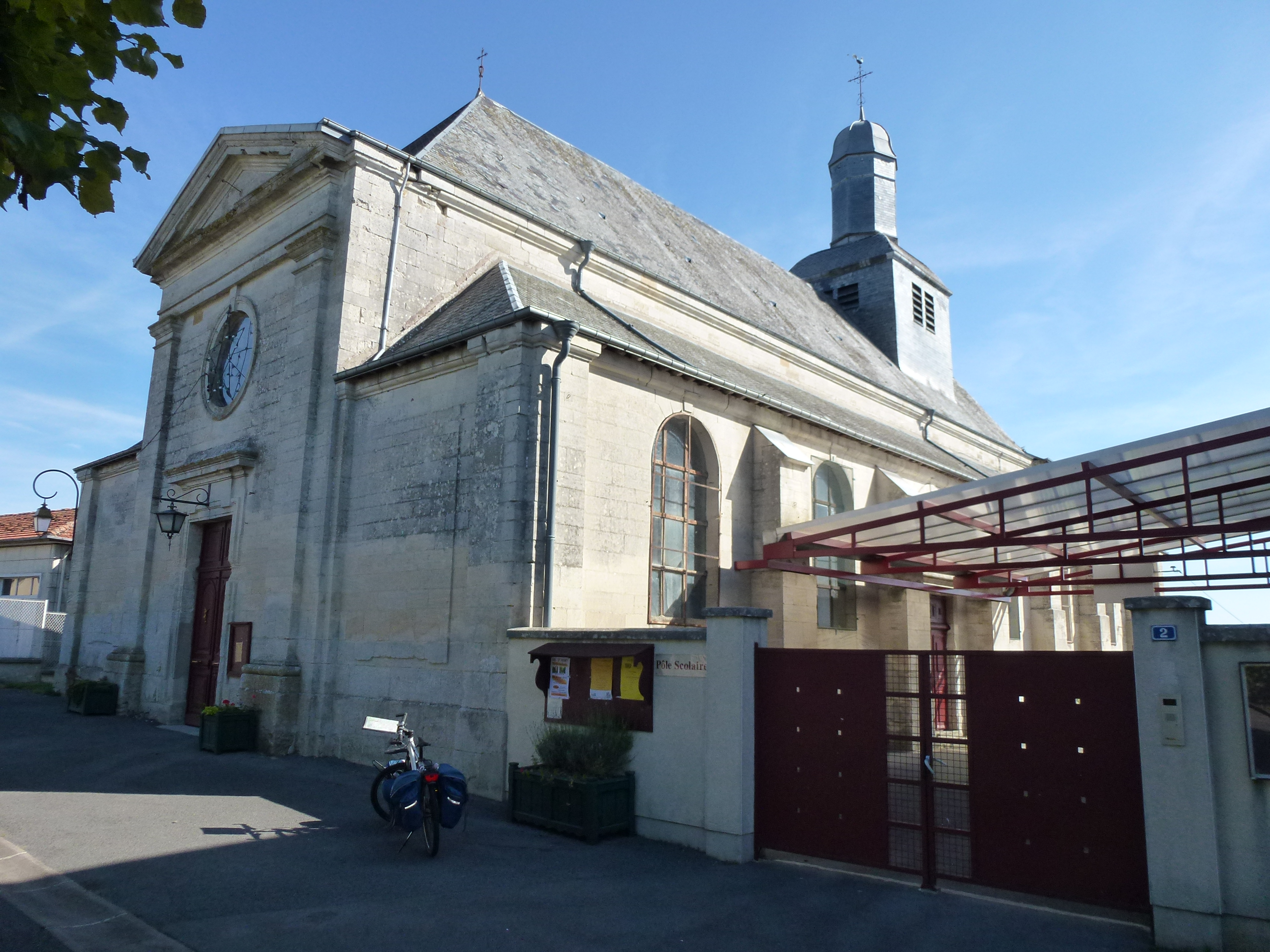 Novion-Porcien (Ardennes), St. Peter church